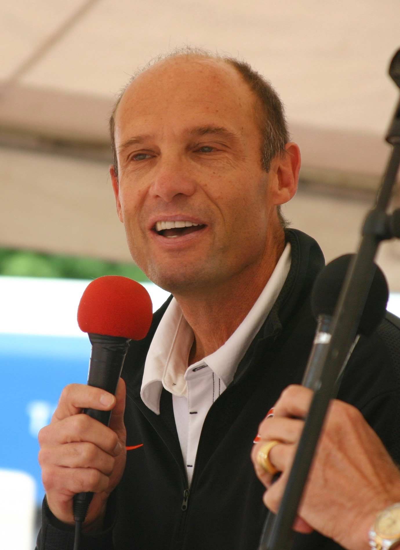 Oregon State Coach Mike Riley does an interview in front of more than a thousand spectators in Pioneer Square. Date: Sept. 17, 2010 (photo: Theresa Hogue)